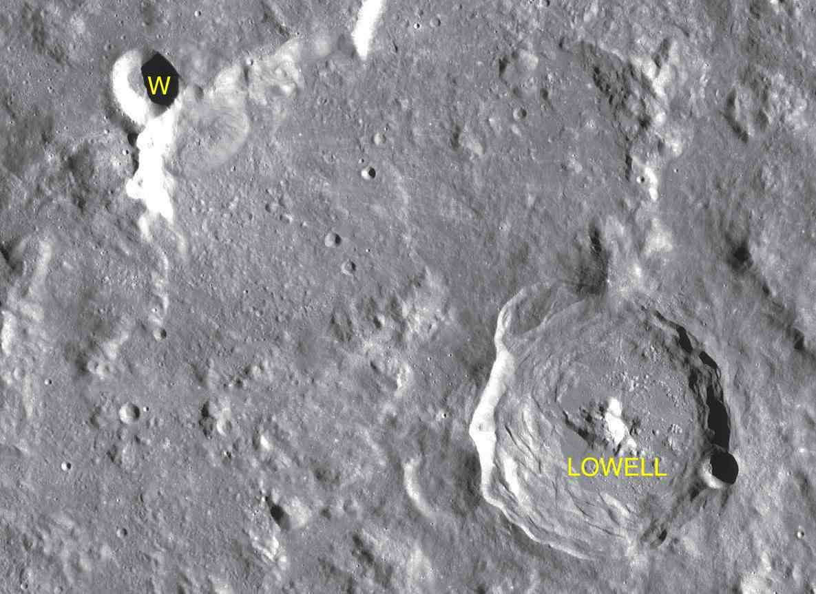 Part of the chart LAC-90 used for the presentation